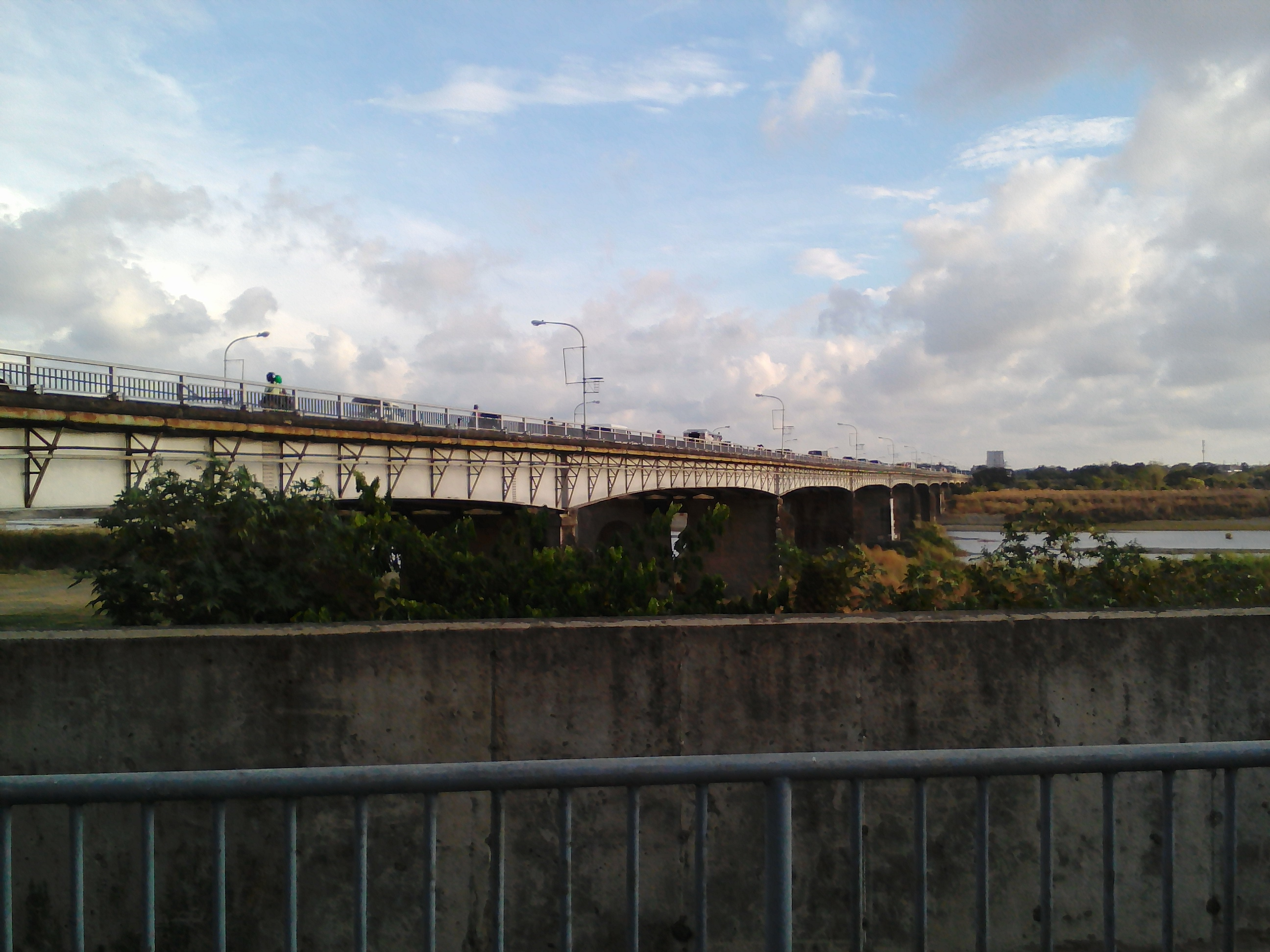 Gilbert Bridge spanning across the Padsan River in Laoag City, Ilocos Norte, Philippines.